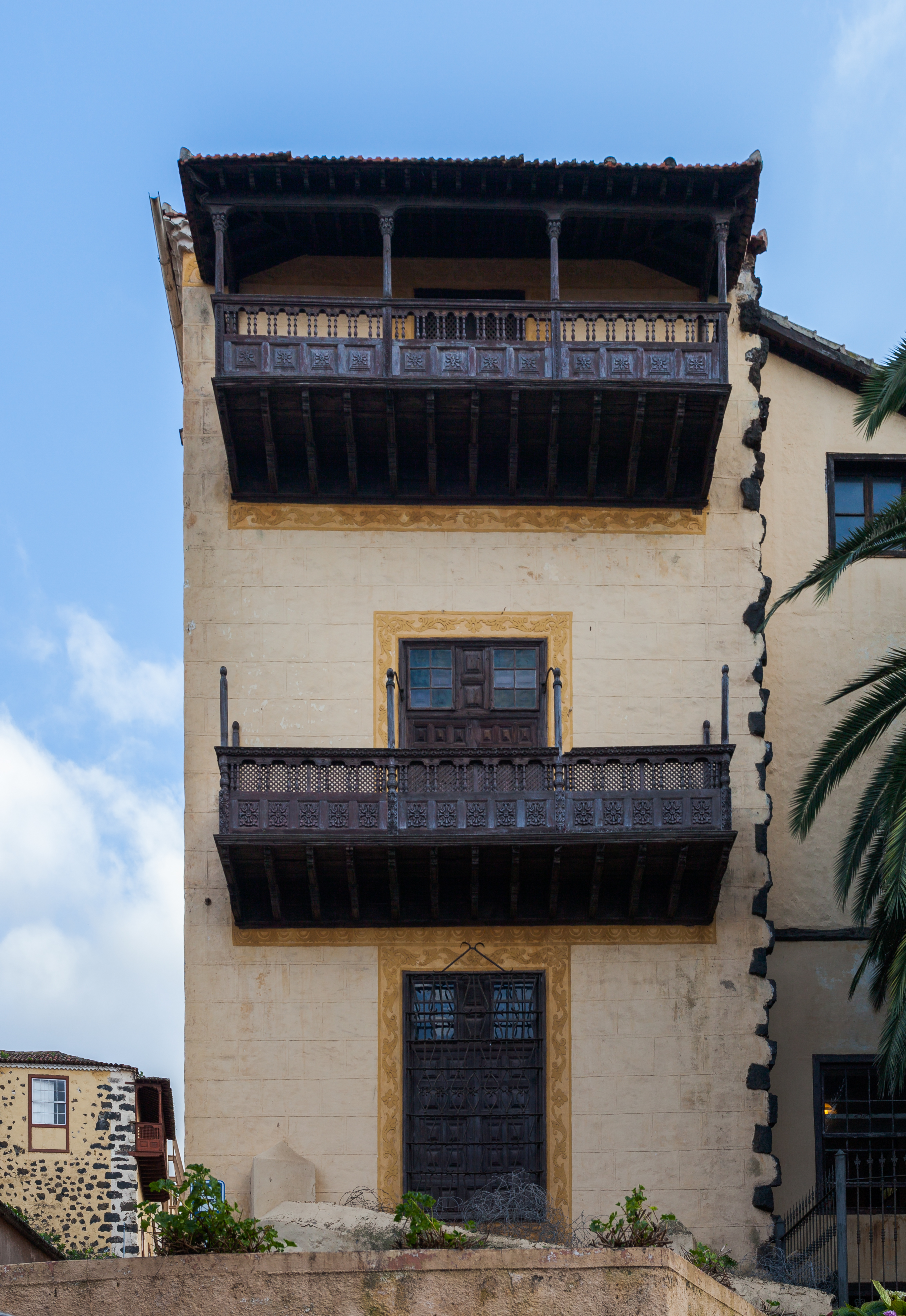 House Lercaro, La Orotava, Tenerife, Spain